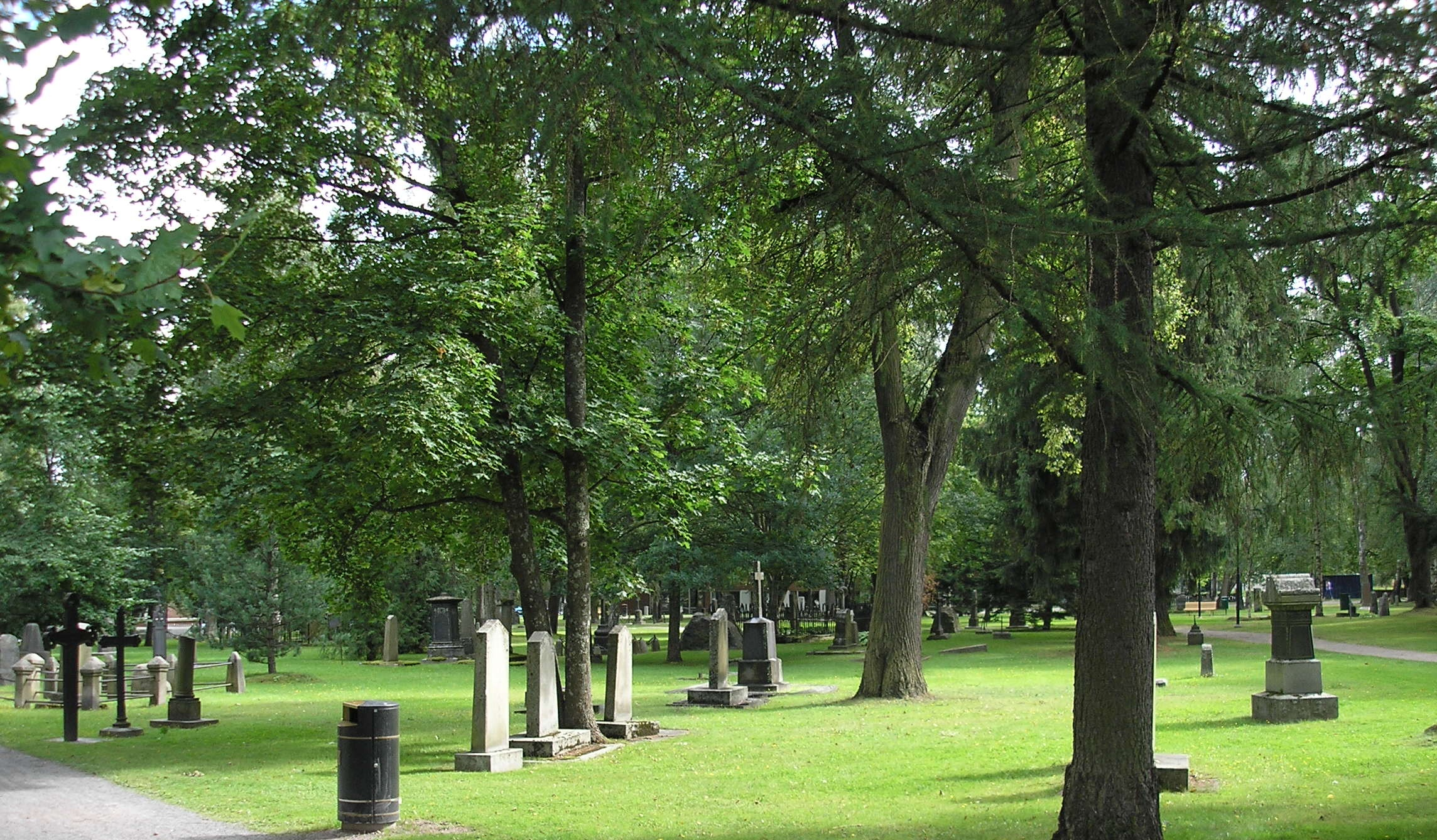 A view of Pyynikin kirkkopuisto (Pyynikki Church Park) in Tampere, Finland. The park is founded on the place of the first cemetery of Tampere, and there are still some old tombstones scattered in the park area.